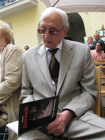 Roman Śliwonik (1930-2012), Polish writer